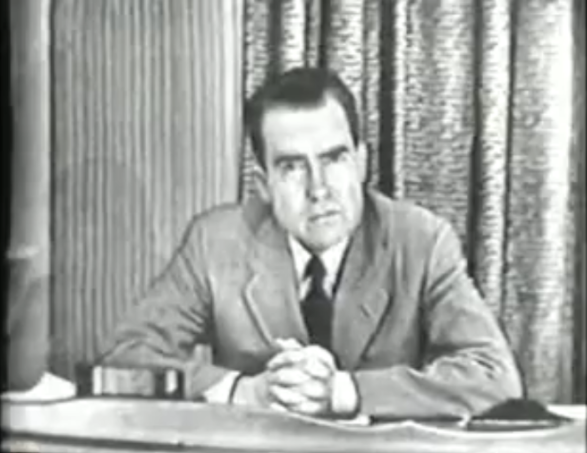 Screen shot from Nixon's Checker speech. Note that as the program aired without a copyright notice, it is in the public domain, even though the source is youtube, there is no copyvio